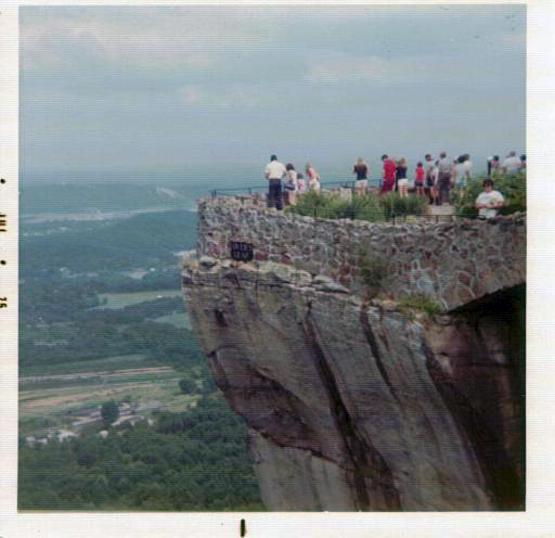 I took photo in July 1975 at Rock City near Chattanooga, TN, with a Kodak camera.